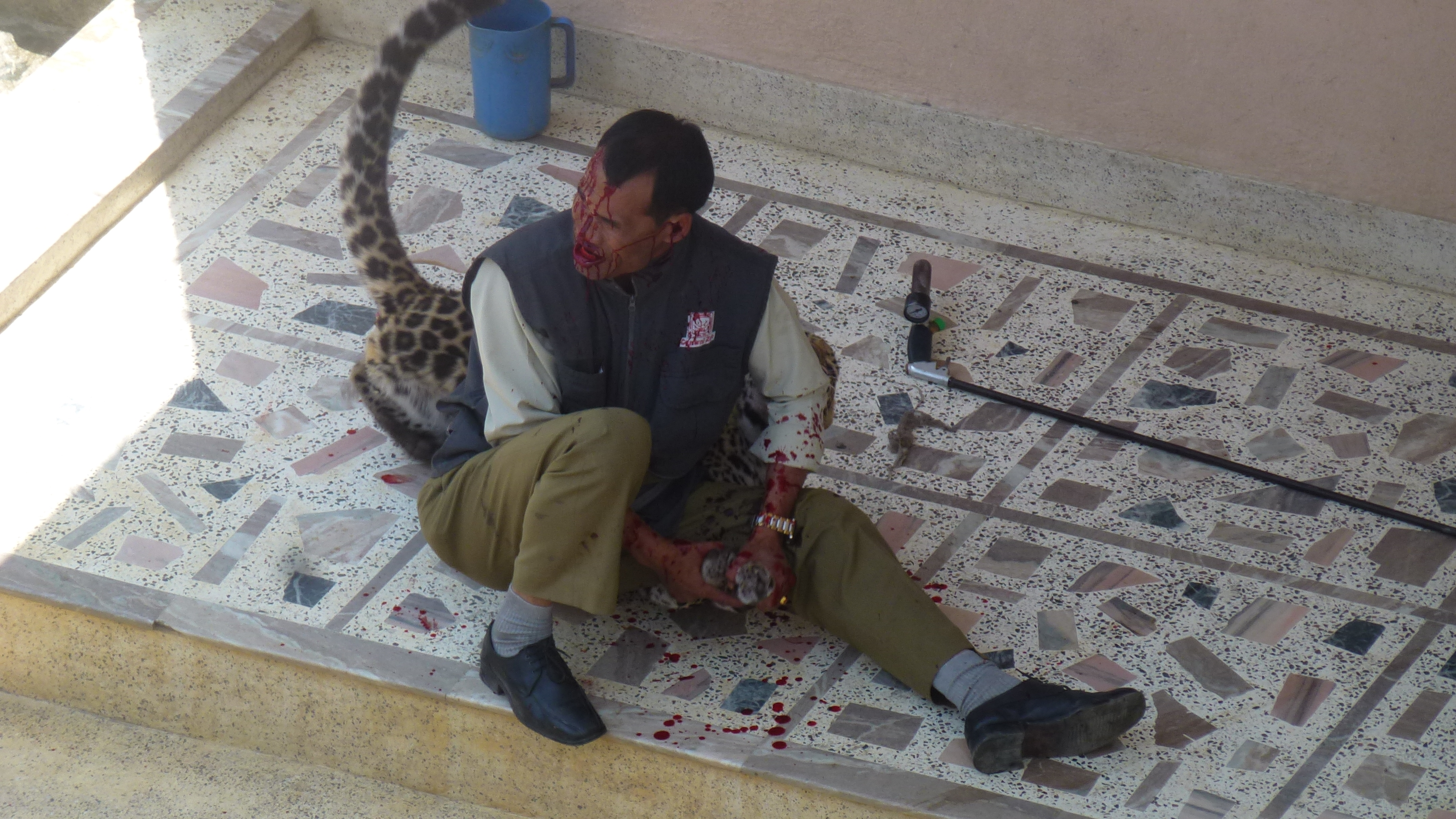 Zoo Veterinary Technician trying to capture leopard in Kapan, Kathmandu